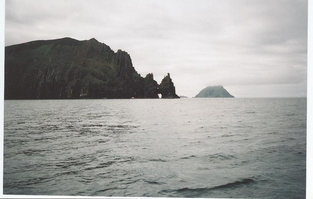 Cathedral Rocks on Inis Na Bro Cathedral Rocks on northern end of Inis Na Bro. An Tiaracht with its summit covered by cloud in background on right.